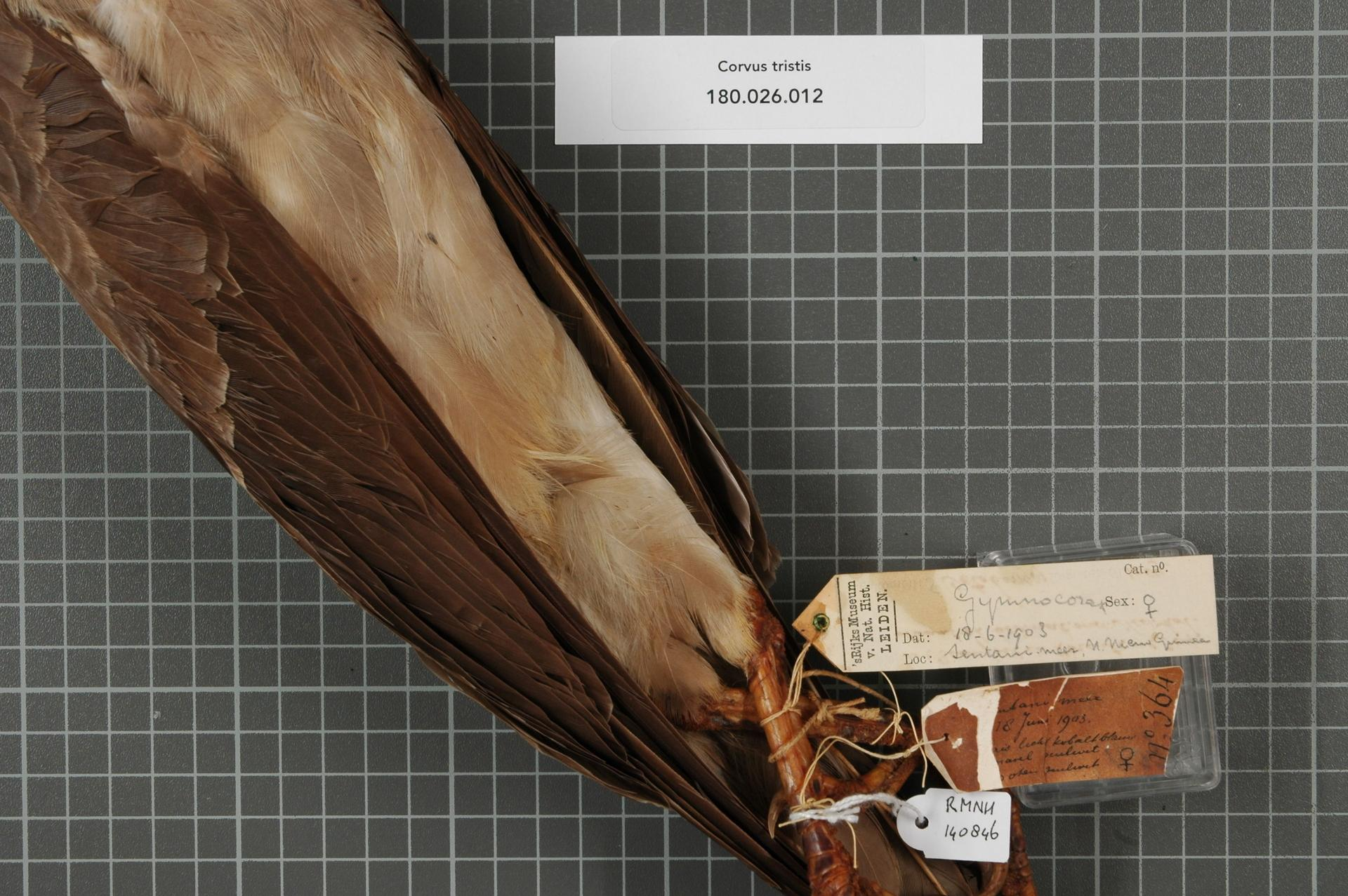 Corvus tristis Lesson and Garnot, 1827